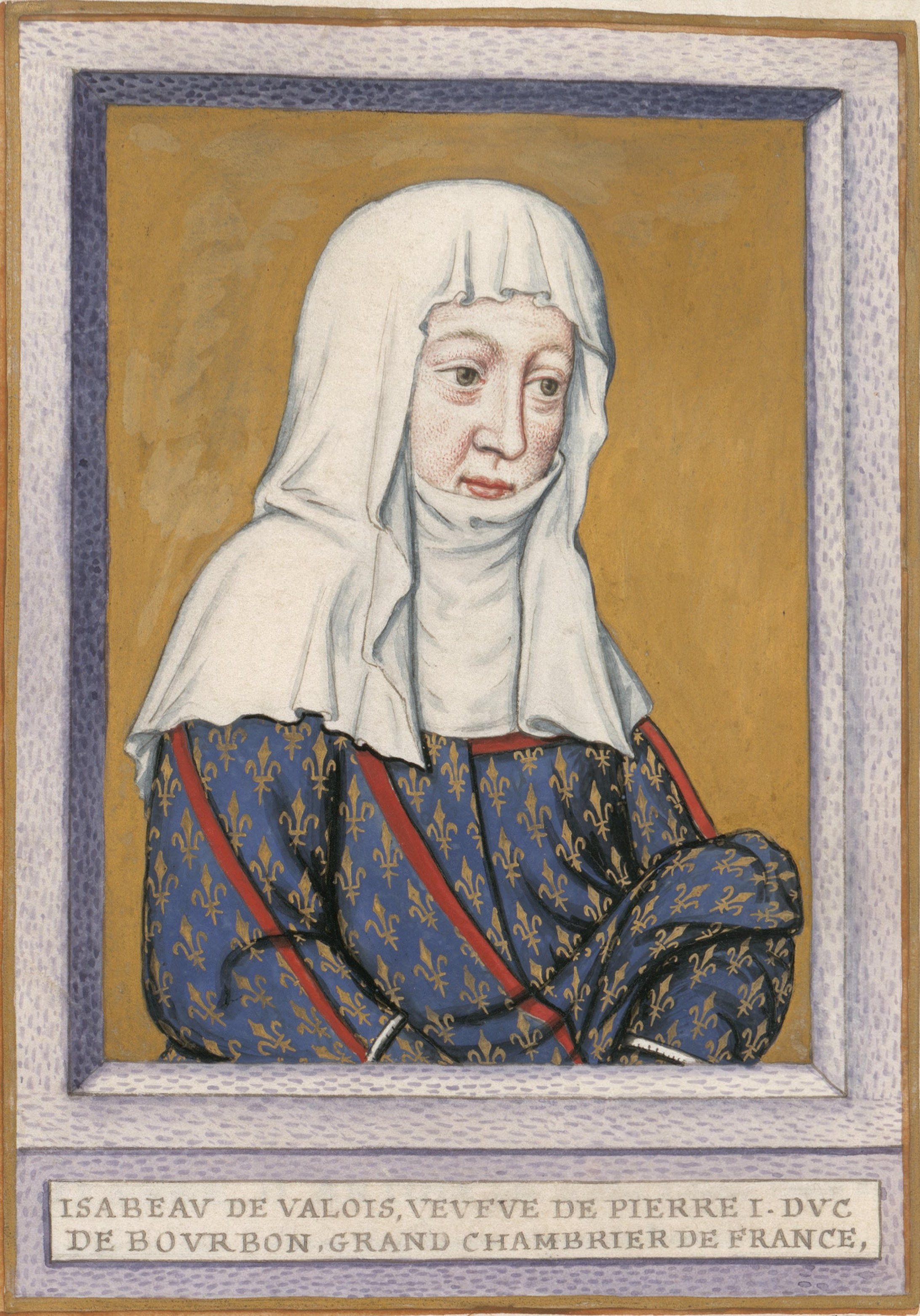 Isabella of Valois (1313-1388)